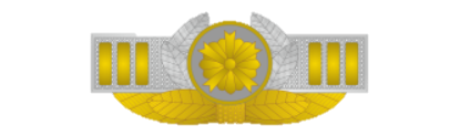 Brooch rank insigna for superintendent of japanese police